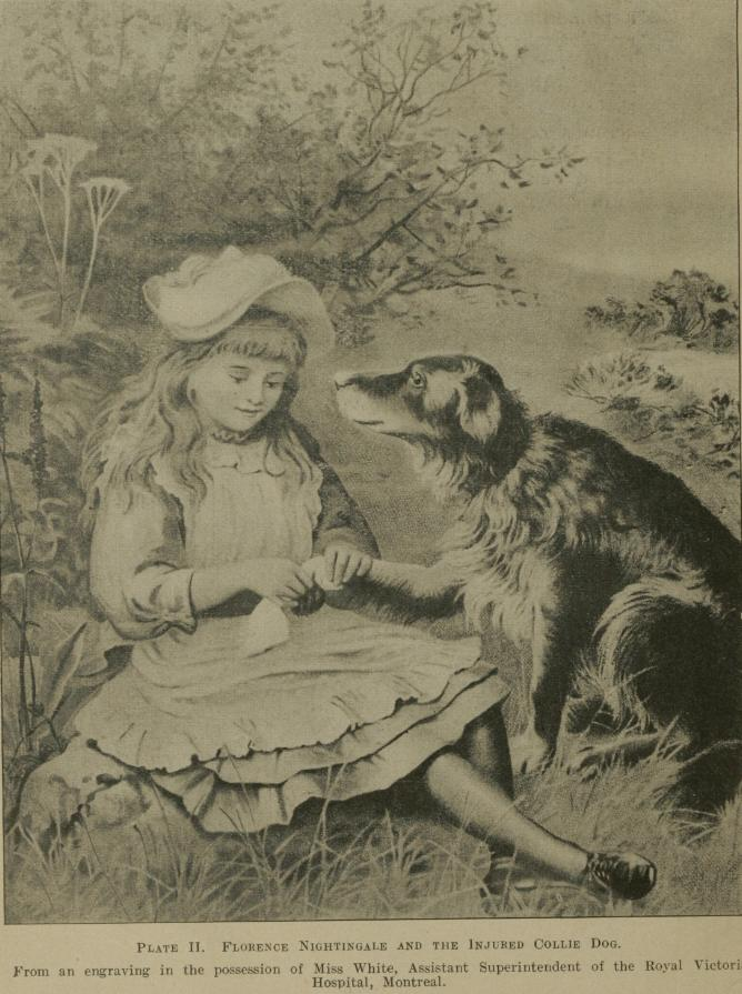 Illustration of Florence Nightingale.